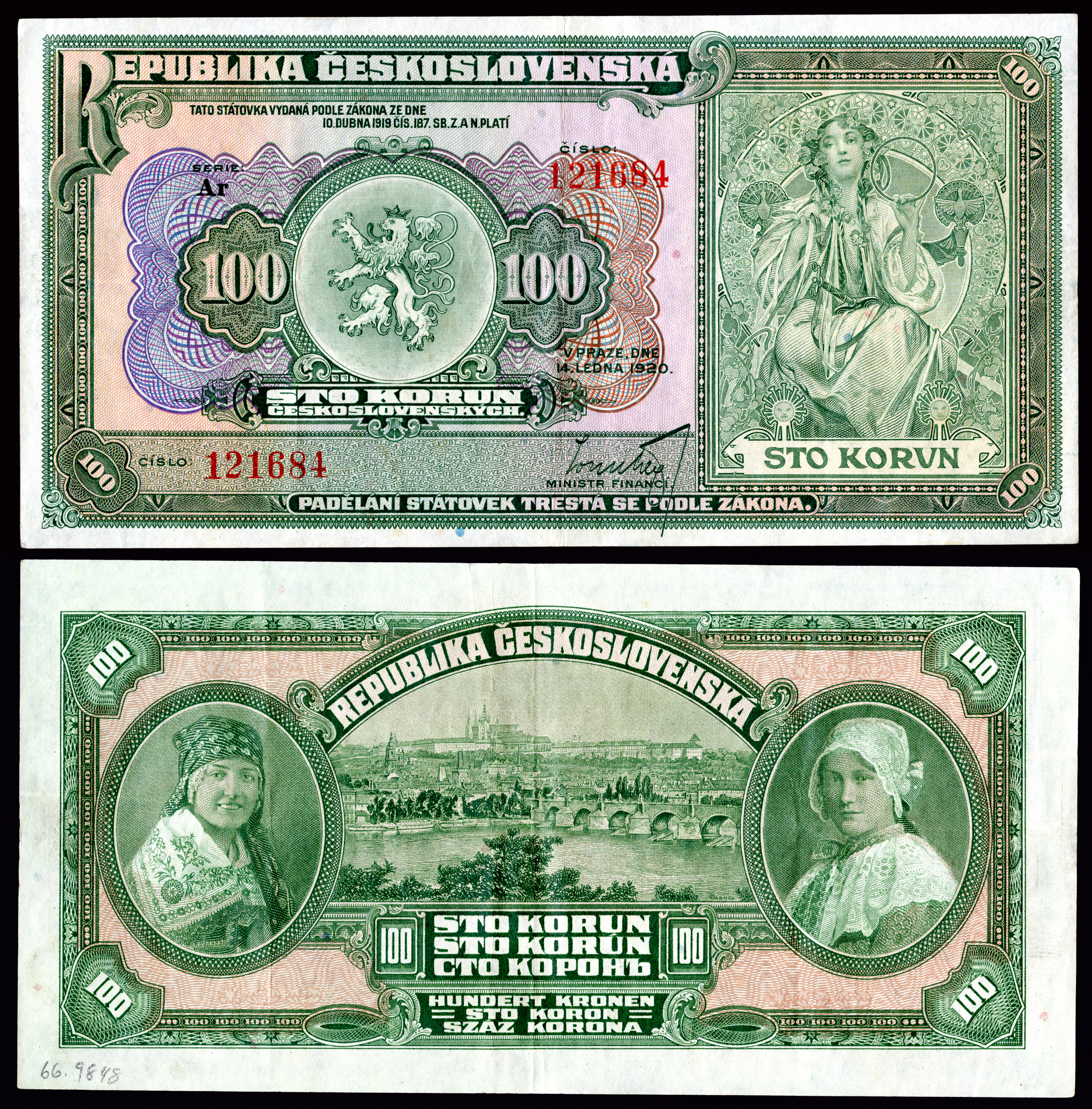 CZE-17-Republika Ceskoslovenska-100 korun (1920). Artwork on the front right was originally designed by Alphonse Mucha for Slavia Insurance Company based on a portrait of Josephine Crane Bradley.